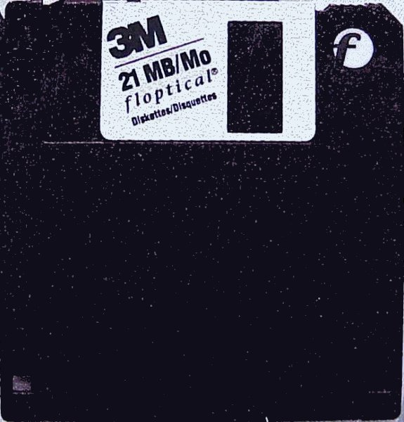 21MB Floptical disk, 94 x 90 x 3,3mm (3½ inch)